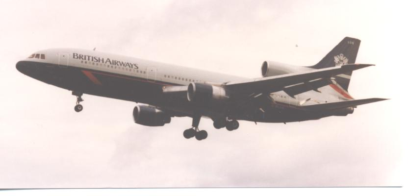 Lockheed L-1011-500 of British Airways